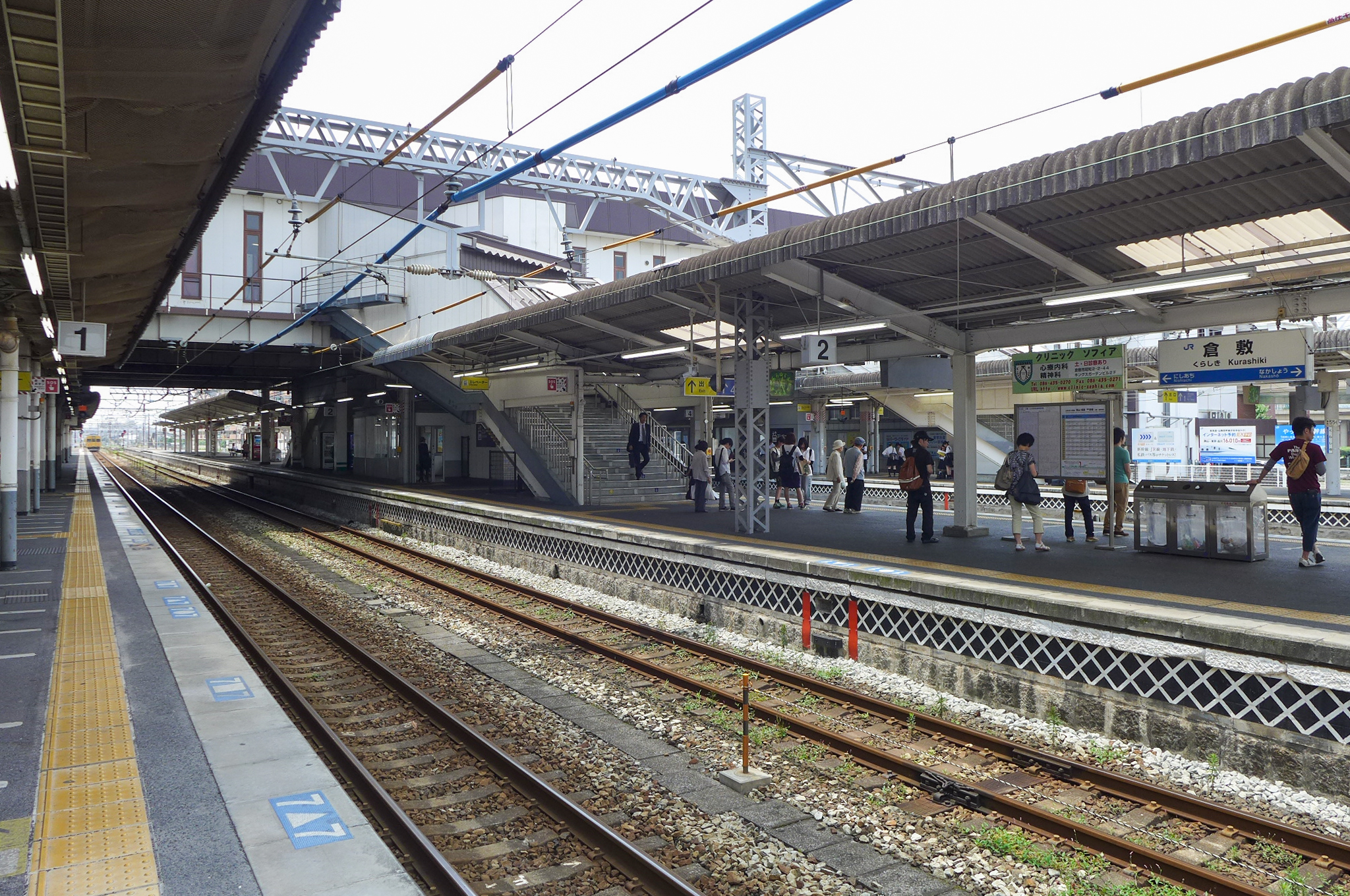 The platforms at Kurashiki Station in Okayama Prefecture, Japan